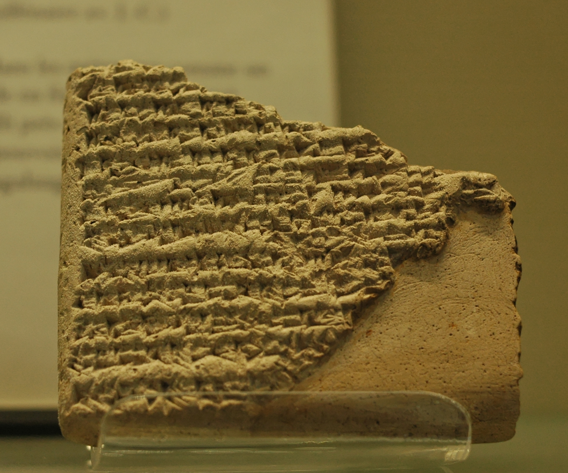 Clay tablet relating the birth of Sargon and his quarrel with king Ur-Zababa of Kish. Tablet from paleo-Babylonian period (beginning of the 2nd millenium BC).Now dated: Sargon of Akkad, reign ca. 2270 to 2215 BC. (Late 3rd millennium BC)